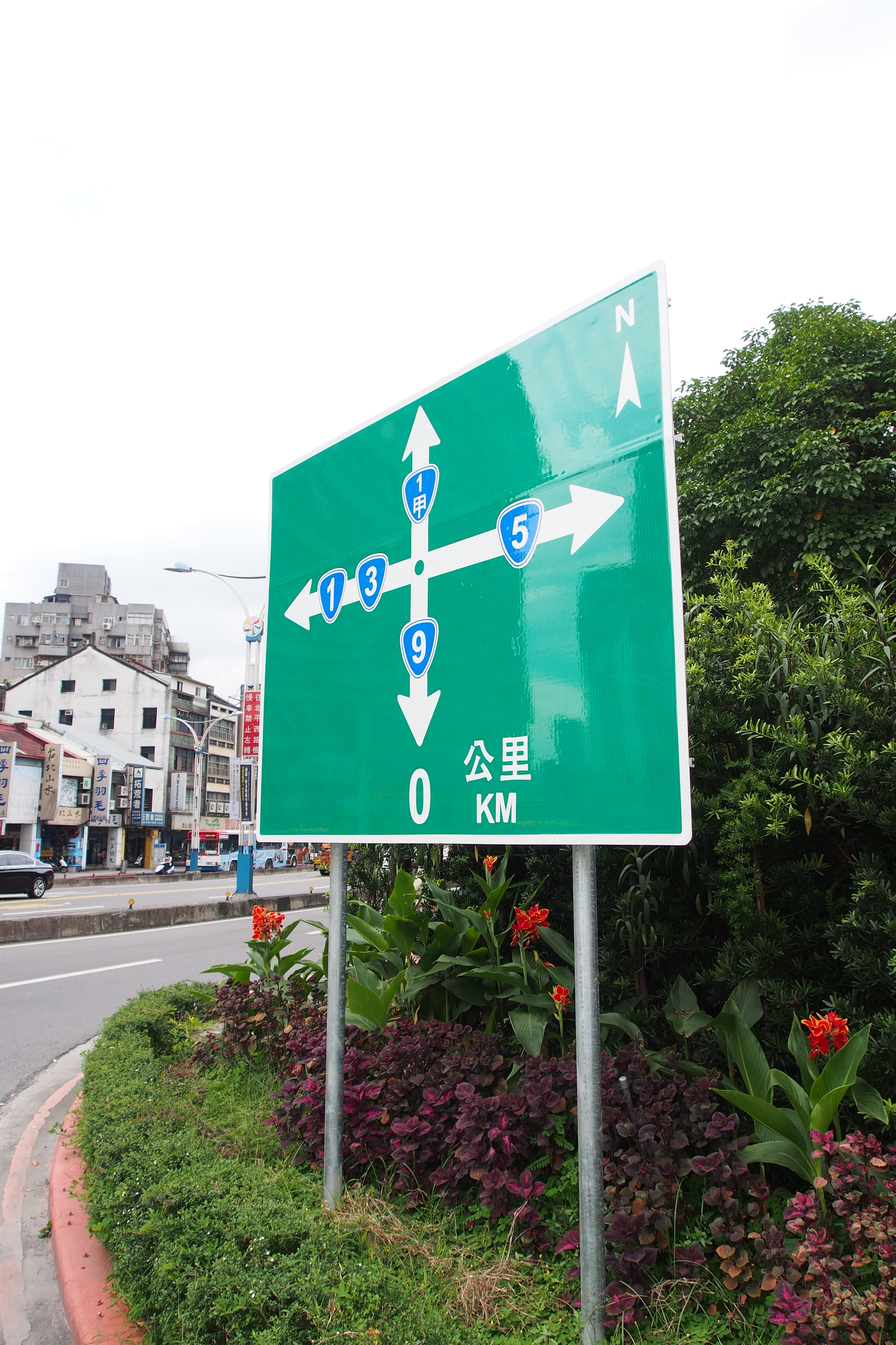 Road Sign of the Kilometer Zero. 中文（台灣）: 臺北市中正區臺灣公路原點路牌。